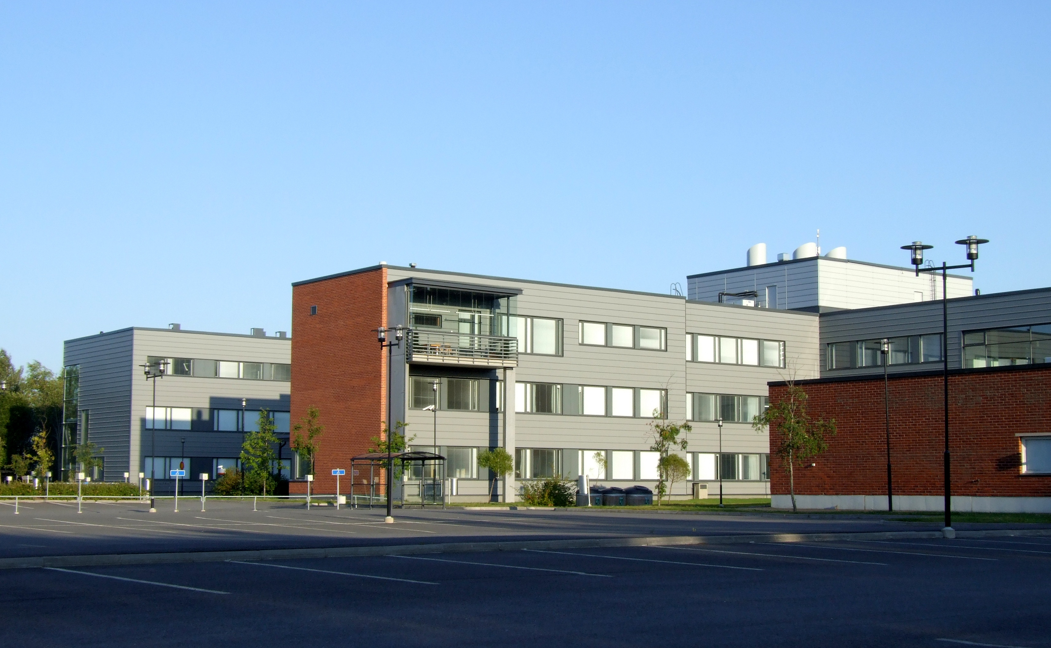 Buildings of the engineering units of the Oulu University of Applied Sciences.